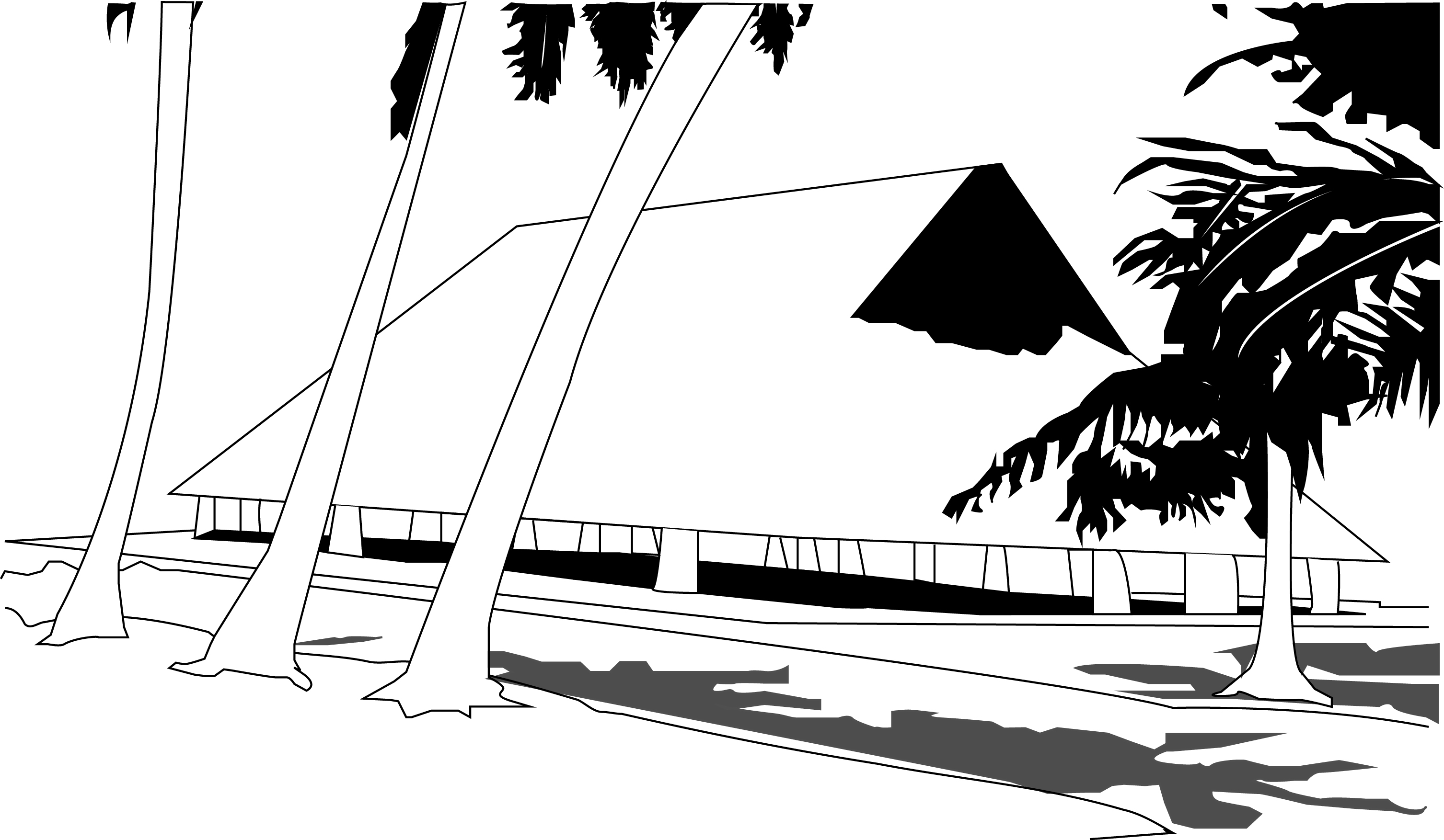 Maneaba